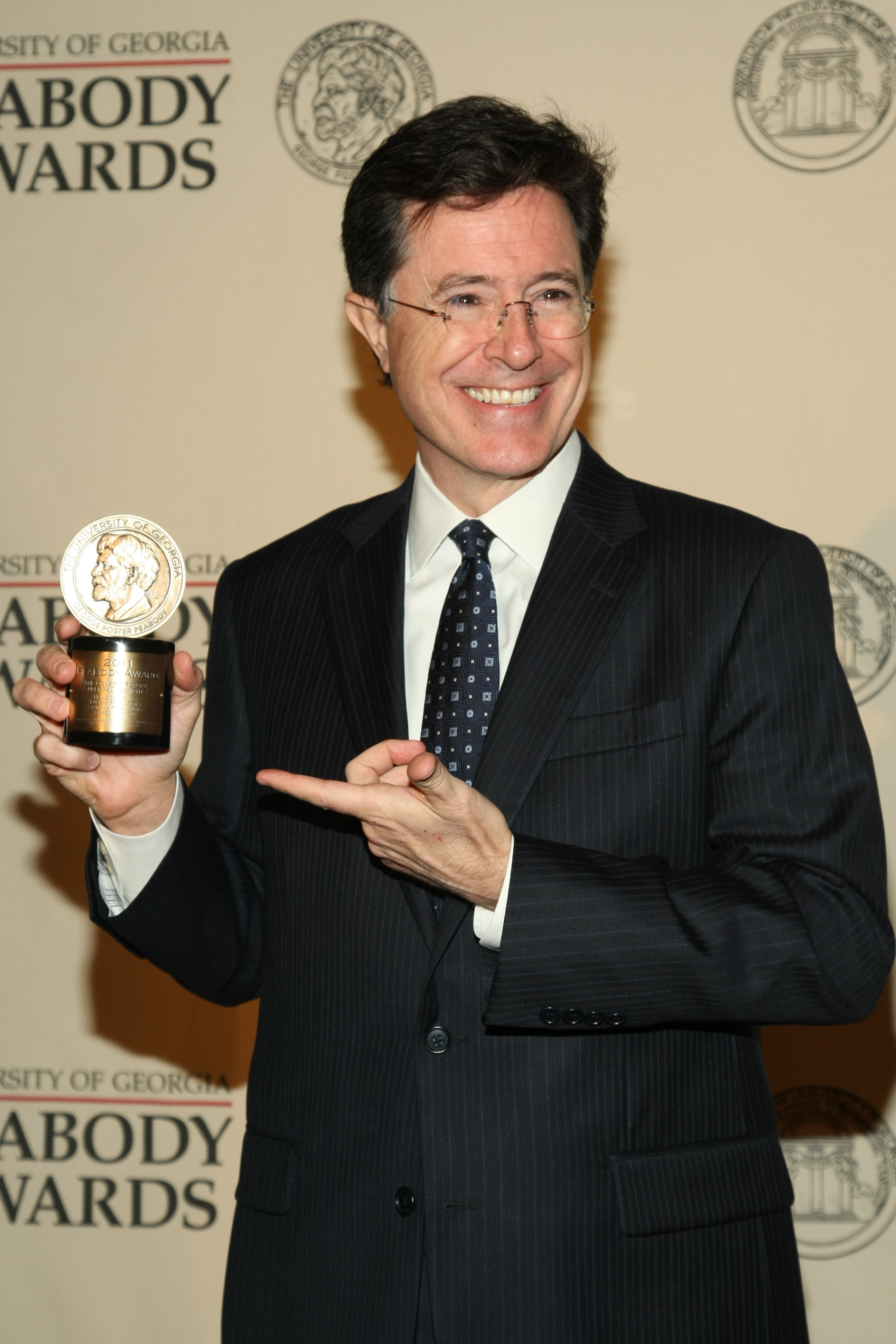 PHOTO CREDIT: ANDERS KRUSBERG / PEABODY AWARDS 71st Annual Peabody Awards Luncheon Waldorf=Astoria Hotel May 21, 2012